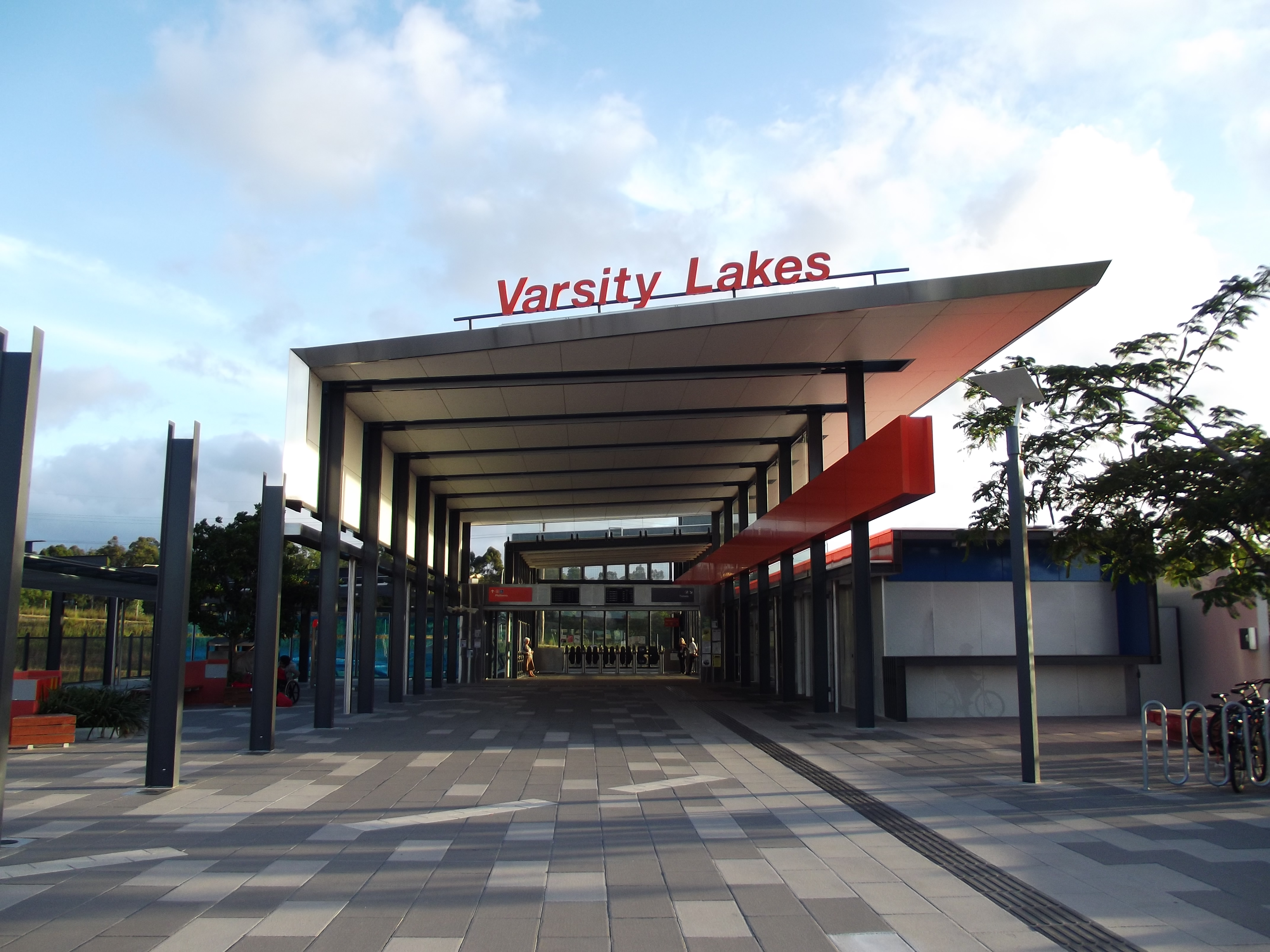 A photo of the Varsity Lakes railway station operated by TransLink, located in Gold Coast, Queensland.